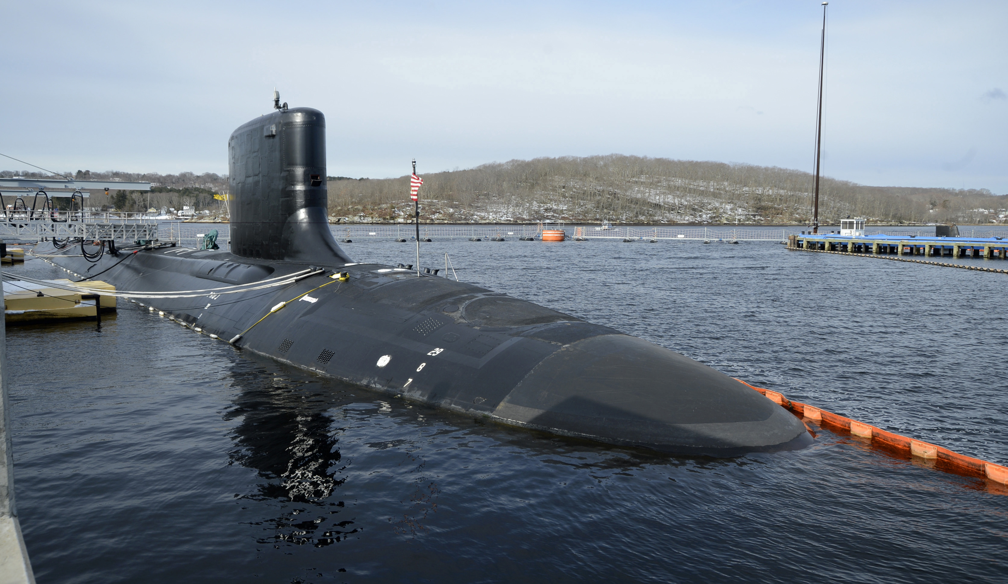 The U.S. Navy attack submarine USS Colorado (SSN-788) sits pierside at Groton, Connecticut (USA), on 15 March 2018, prior to commissioning on 17 March. Colorado was the the U.S. Navy's 15th Virginia-class attack submarine and the second ship named for the State of Colorado.